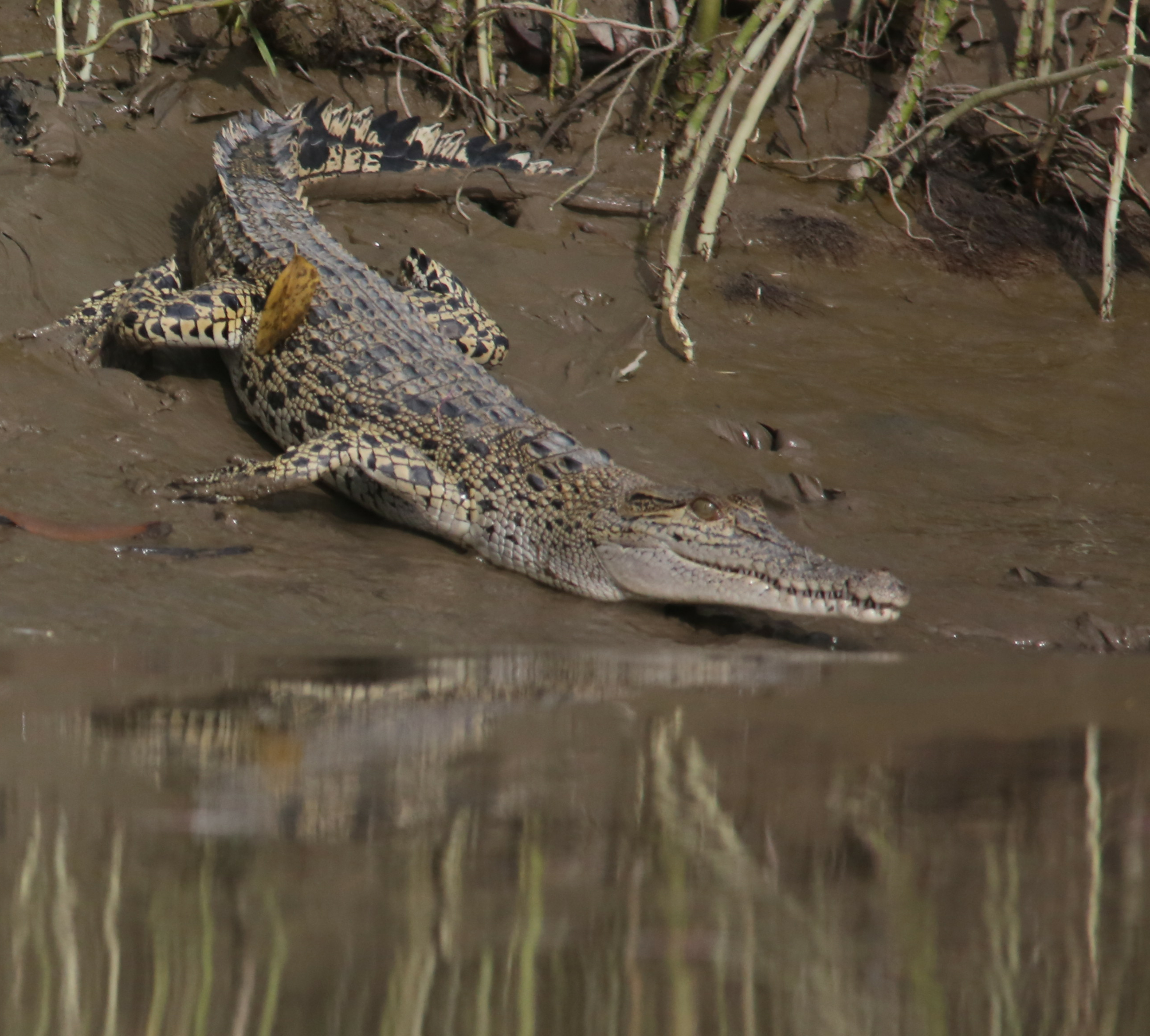 Saltwater Crocodile 02 (Crocodylus porosus)